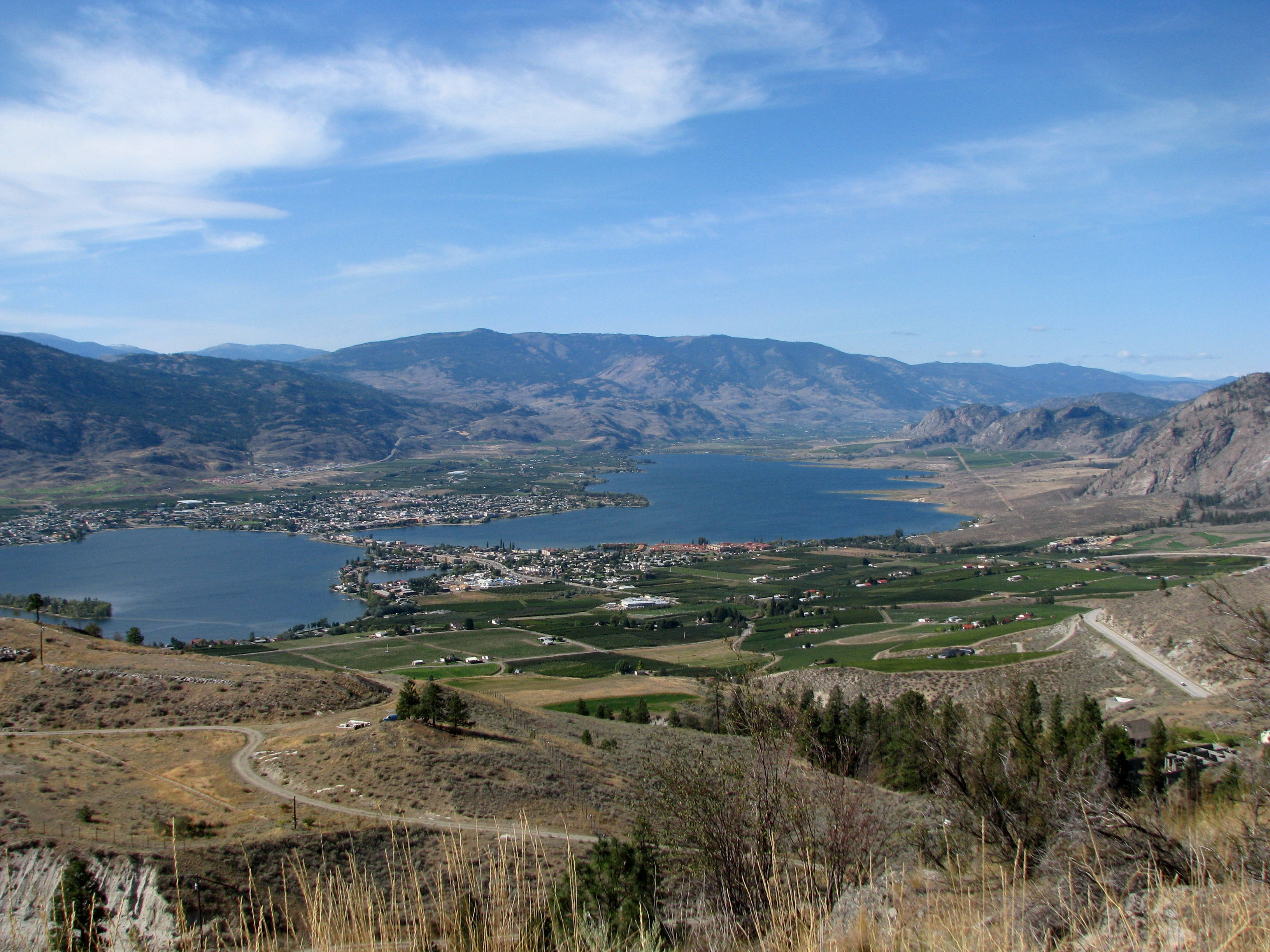 From author: "The start of wine country in Western Canada, Osoyoos. "